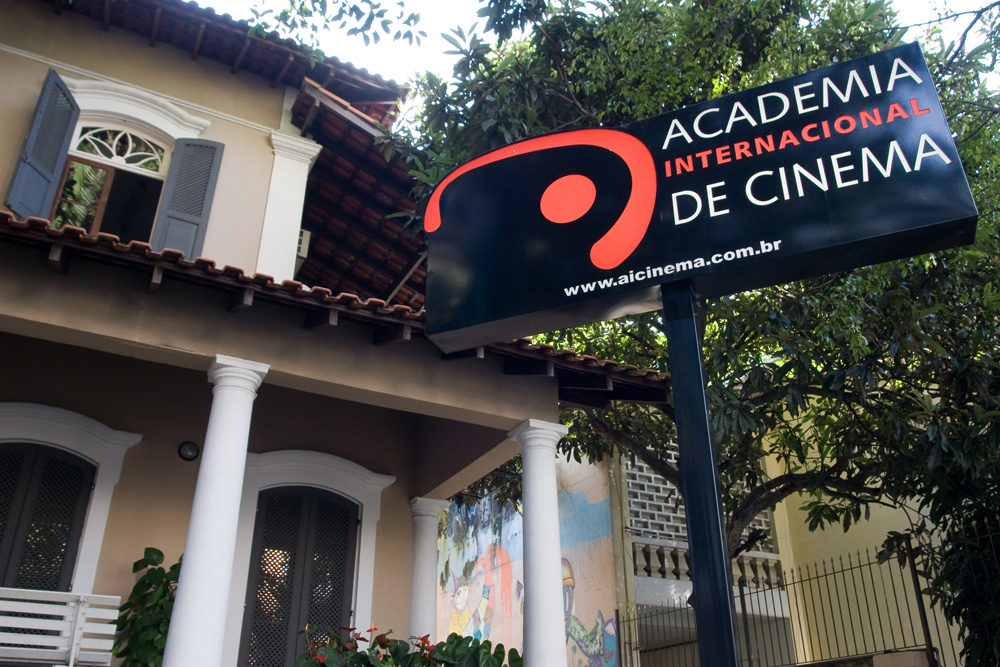 Academia Internacional de Cinema - São Paulo - SP